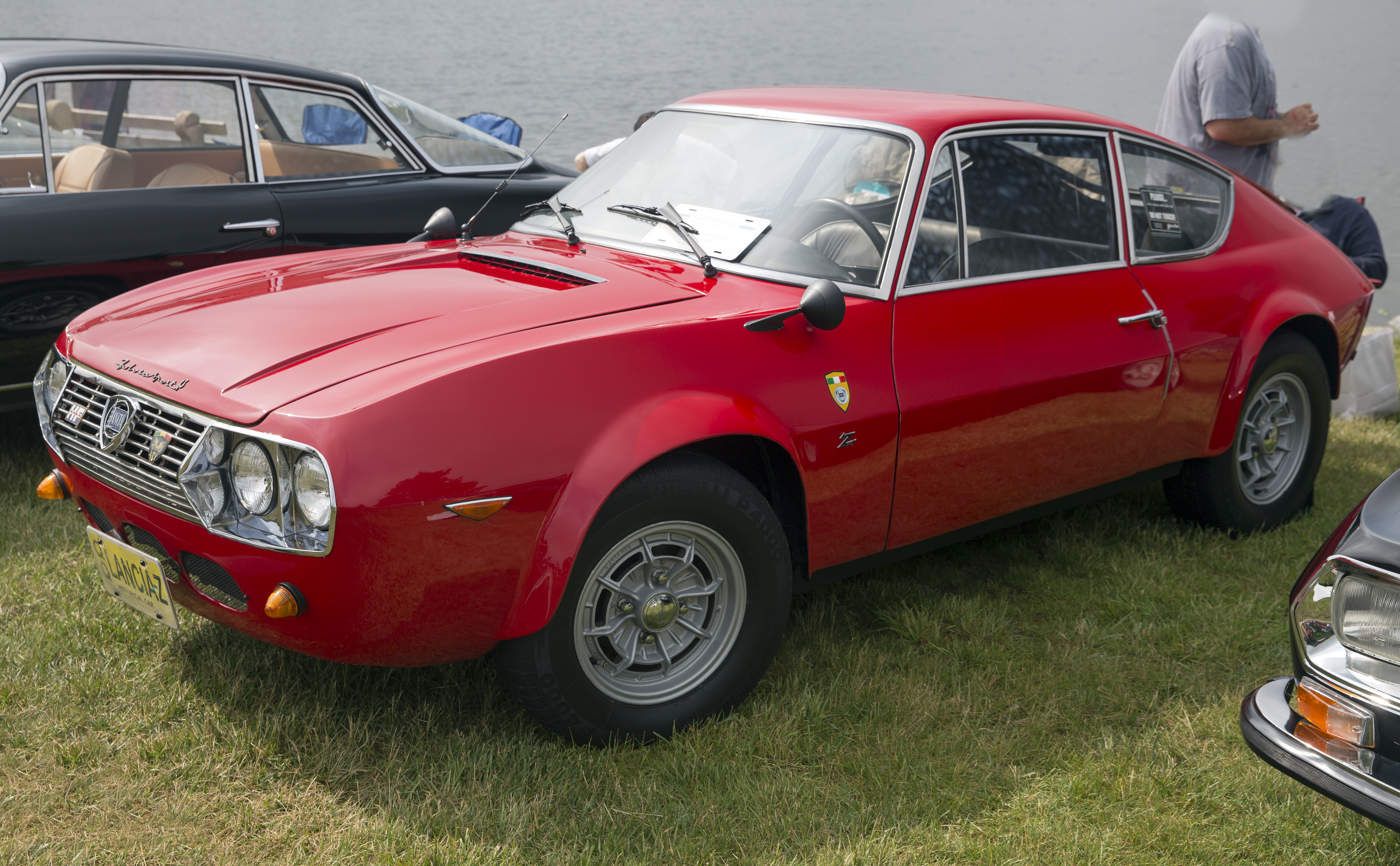 1967 Lancia Fulvia Sport Zagato (1.3) at the 2019 Greenwich Concours d'Elegance. This one had one owner from new until January 2019, 34k miles. Original US-market example. Campagnolo wheels, had the black interior substituted for leather around 2008. Steel shell with aluminum doors and lids, the wide fenders were welded in back in 1971.